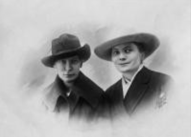 Finnish communists Aino Pesonen (1884-1975) and Hanna Malm (1887-1938) in 1920.